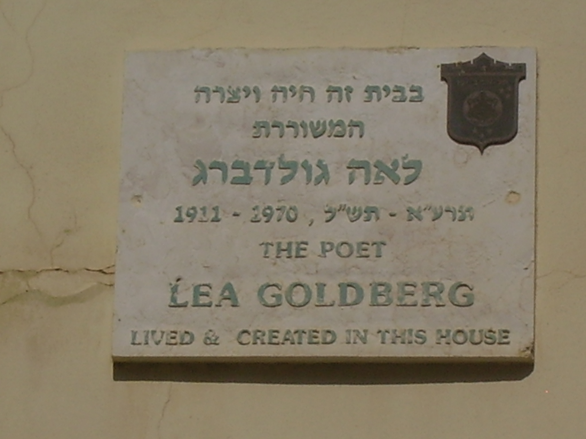 memorial plaque on the poetess lea goldberg house in tel aviv לוחית זיכרון על ביתה של לאה גולדברג ברח' ארנון 15 בתל אביב